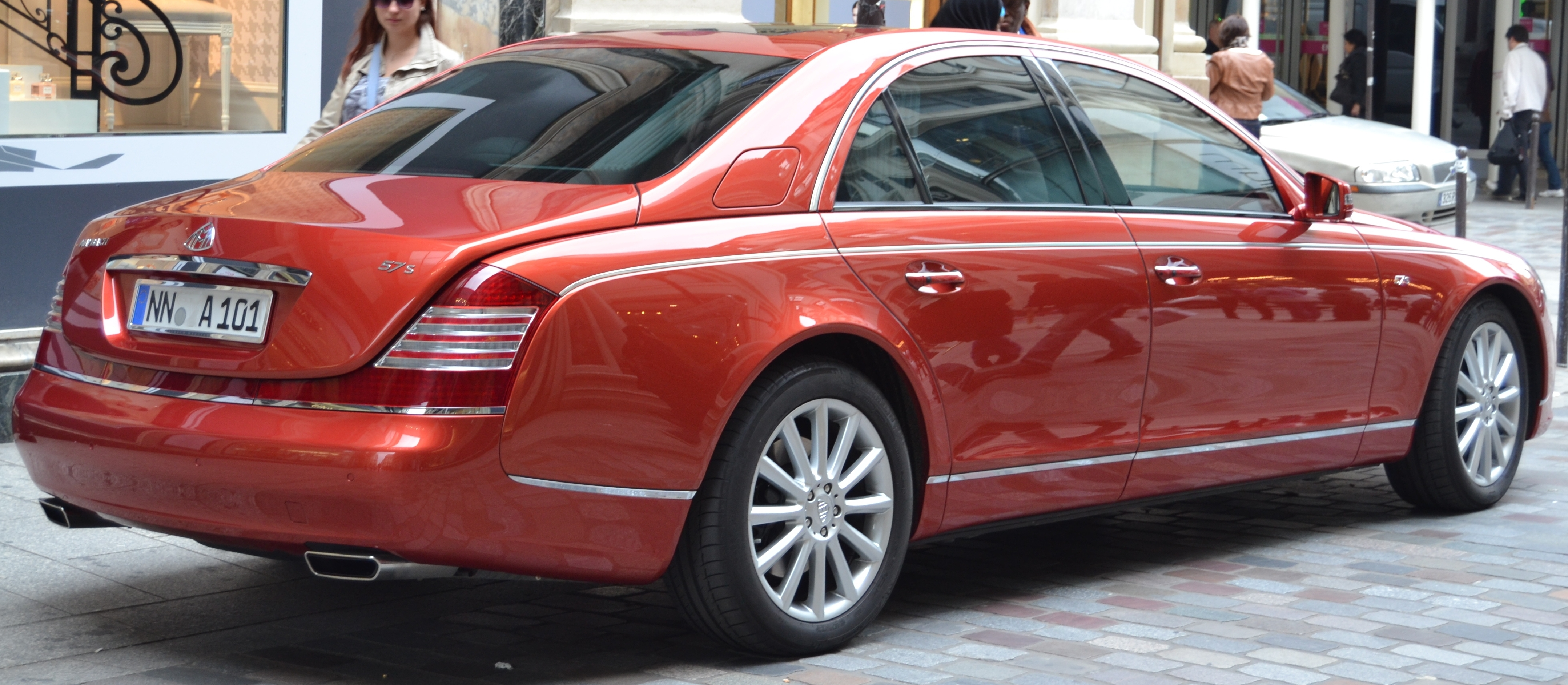 Maybach 57 in Paris 2013 (licence plate manipulated)